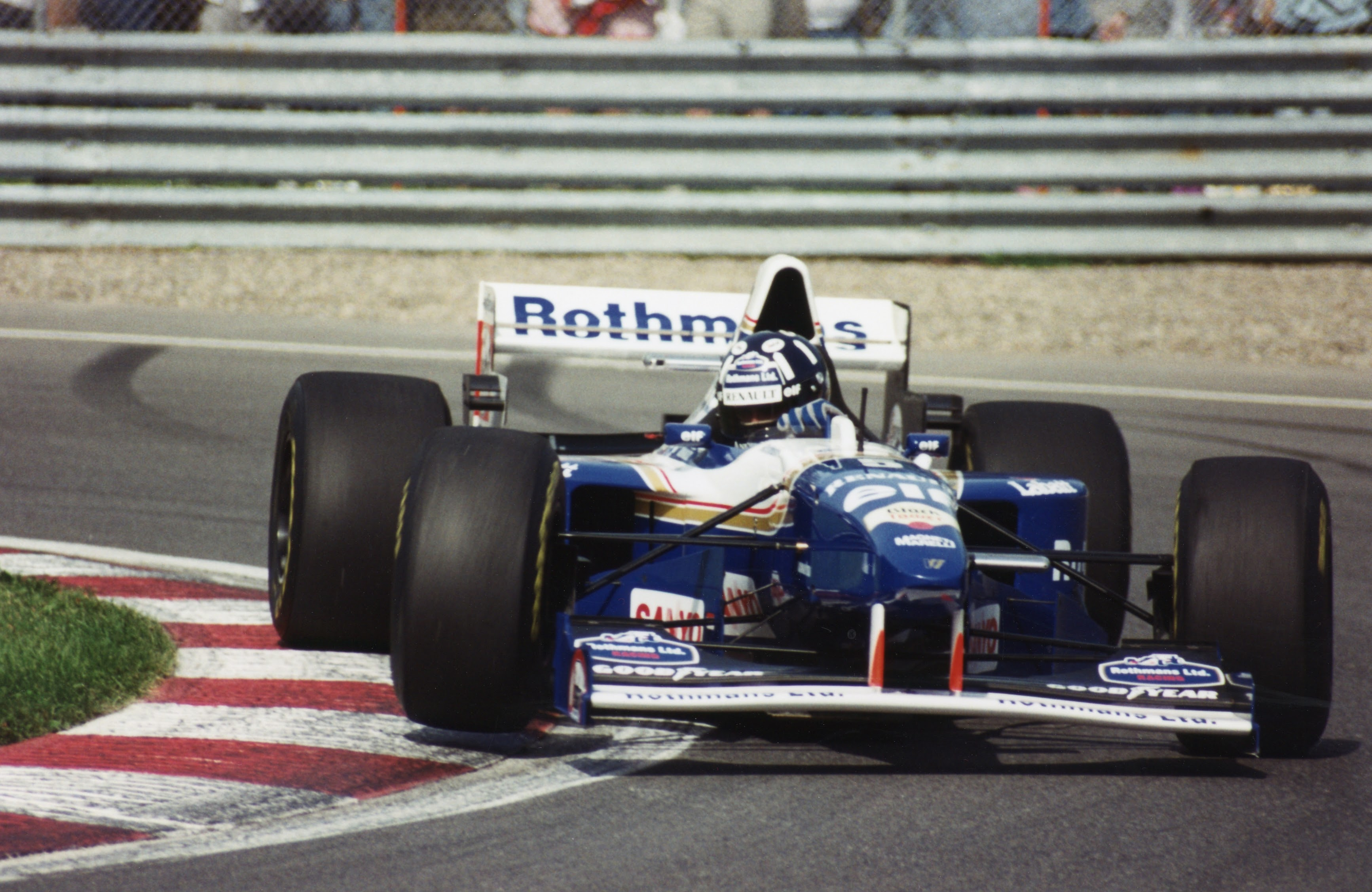 Damon Hill at Canada Grand Prix, Montreal, 1995.